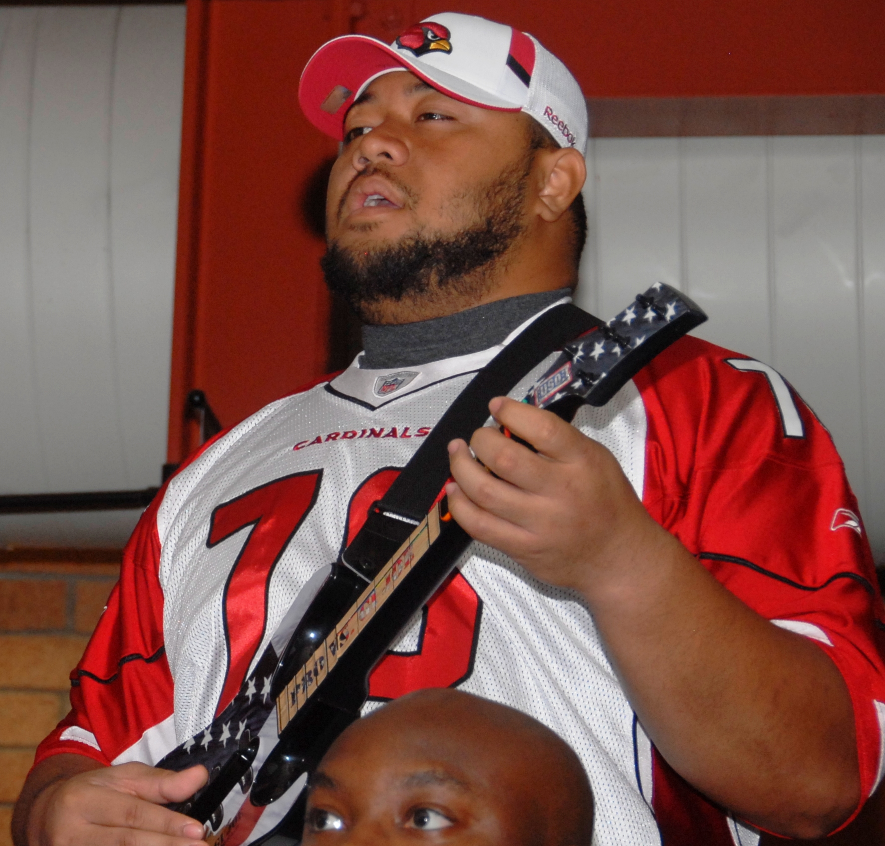 Deuce Lutui displays his musical talents along with Pfc. Ernest Tisdale, foreground, during a Pros vs. GI Joes event at the Cardinals training facility in Tempe, Ariz. on Sept. 22. Pros vs. GI Joes is a non-profit organization that arranges video events between professional athletes and deployed service members. The competition in this event were members of the Ariz. Army national Guard's 1404th Transportation Company presently deployed in Iraq.